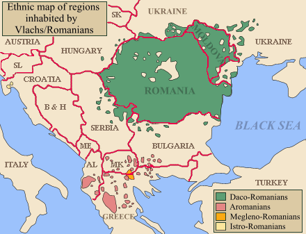 Map of the Balkans with regions inhabited by Romanians/Vlachs (Eastern Romance speakers) highlighted. Please note that not in all the regions highlighted, Romanian language is used by the majority of speakers. In some regions it only notes presence of a minority Romanian-speaking community. Regions inhabited by Daco-Romanian speakers in green, Aromanians in red, Megleno-Romanians in yellow, Istro-Romanians in pink (far west in modern day Croatia).